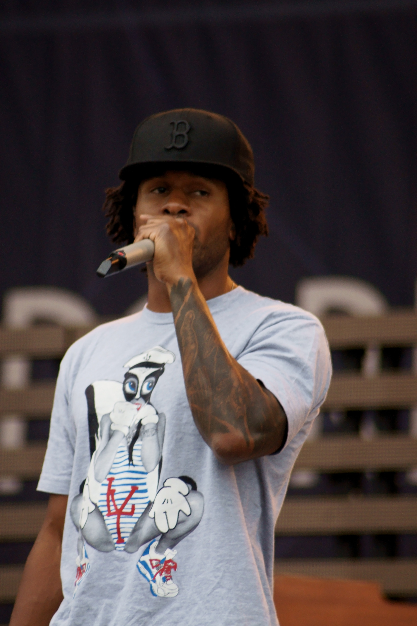 Shay Haley performing with N.E.R.D in Pori Jazz 2010.